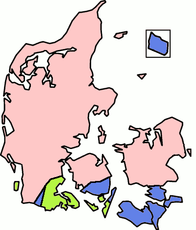 A map showing the distribution of stød and tonal accents in Danish dialects. Pink is stød, green is tones, and blue is neither. Drawn by User:Twid based on the data given in this map, using the map Image:DenmarkNumbered.png.